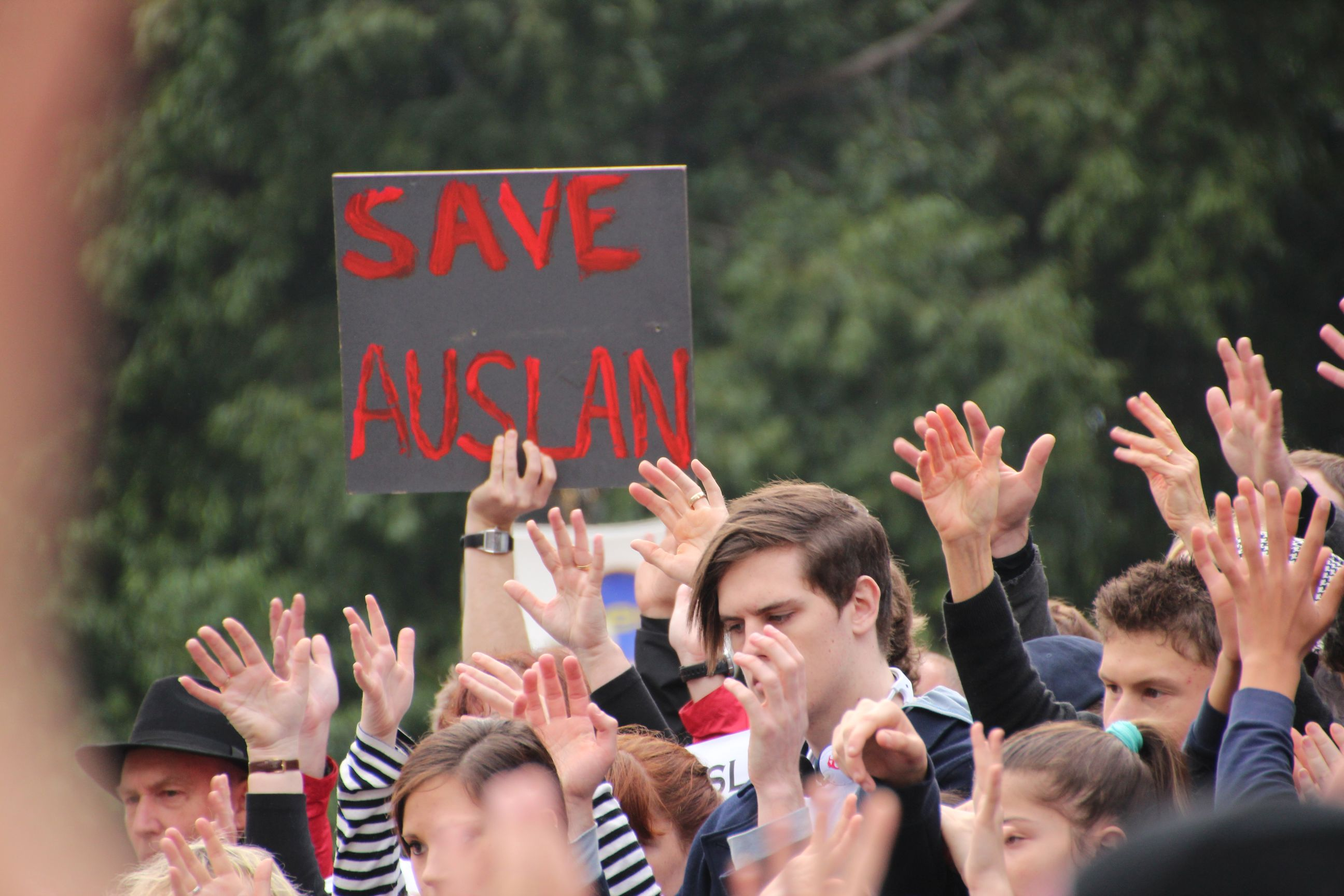 May 30: Over 500 people from the Victorian deaf community and supporters gathered at Federation Square then marched silently to Parliament House to protest the decision by Premier Ted Baillieu and the Victorian Government to slash $300 million in budget cuts from the TAFE education system which has resulted in Kangan Batman TAFE Institute discontinuing the only Victorian Diploma course in Auslan - the Australian sign language.